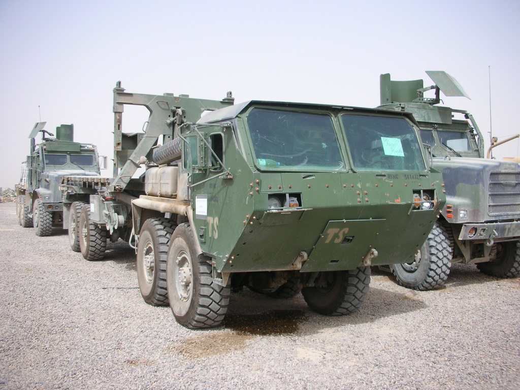 LVS MK48/18A2 Self-loader with flatrack. Camp Fallujah, Iraq. This particular LVS was involved in a minor front-end accident the night prior to the picture being taken.